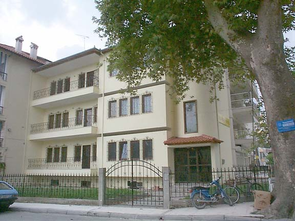 Outside view, image from the Folklore Museum, Katerini, Central Macedonia, Greece